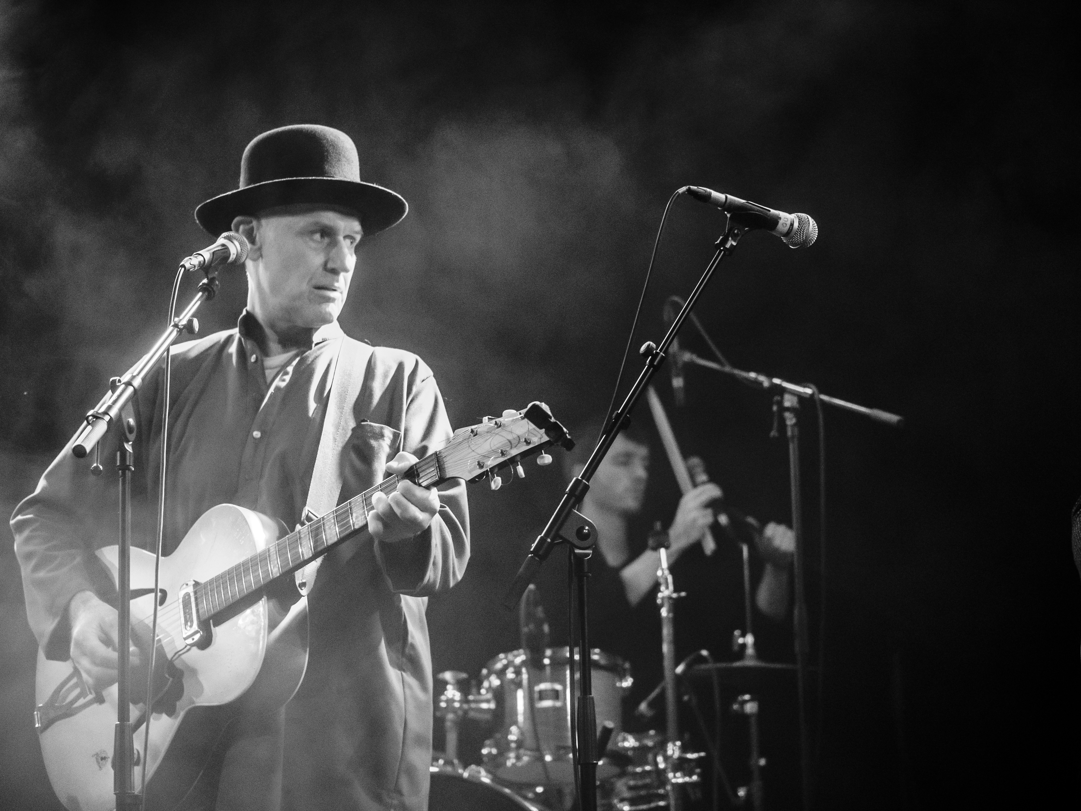 Singer songwriter Otto von Bismarck in concert at Lido Berlin on January 16, 2019, as support of the Austrian act Der Nino aus Wien